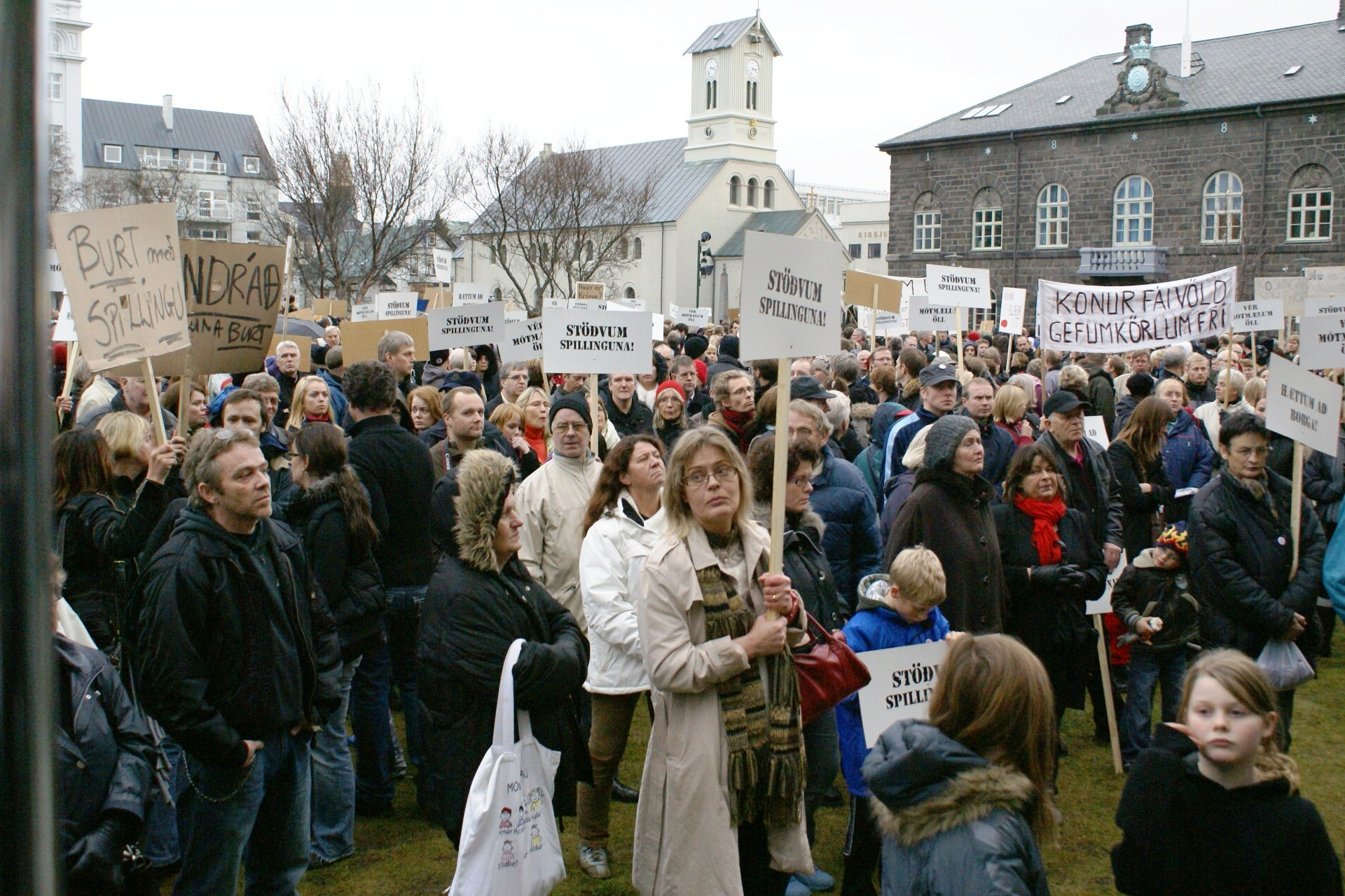 Week 5. Protesting at Austurvöllur.The Kitchenware-Revolution in Iceland was organize by Hördur Torfason and "Raddir Fólksins". It started in the wake of the collapse of the banking system followed be the decimation of Icelandic economy in the beginning of October 2008. It resulted in the resignation of Geir H. Haarde and his cabinet on January 26. 2009.The protest meetings were held every Saturday at the Austurvöllur square in front of Alþingishús - the Icelandic parliament house. The first meeting (week 1) was dated Saturday 11. October 2008. The 16th meeting dated January 24. 2009